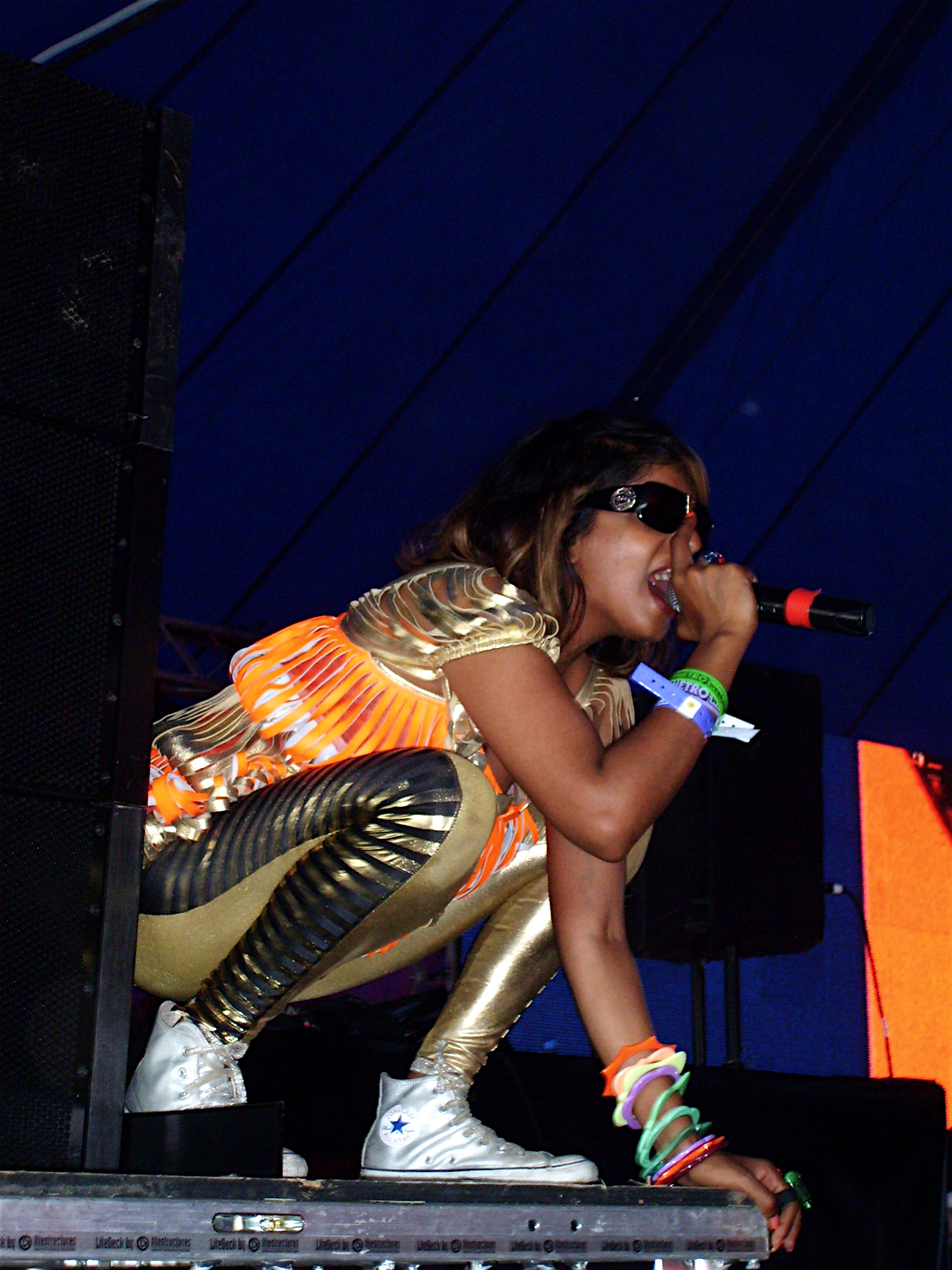 M.I.A. performing live in 2007. Image originally posted at original photographer Louis Beche